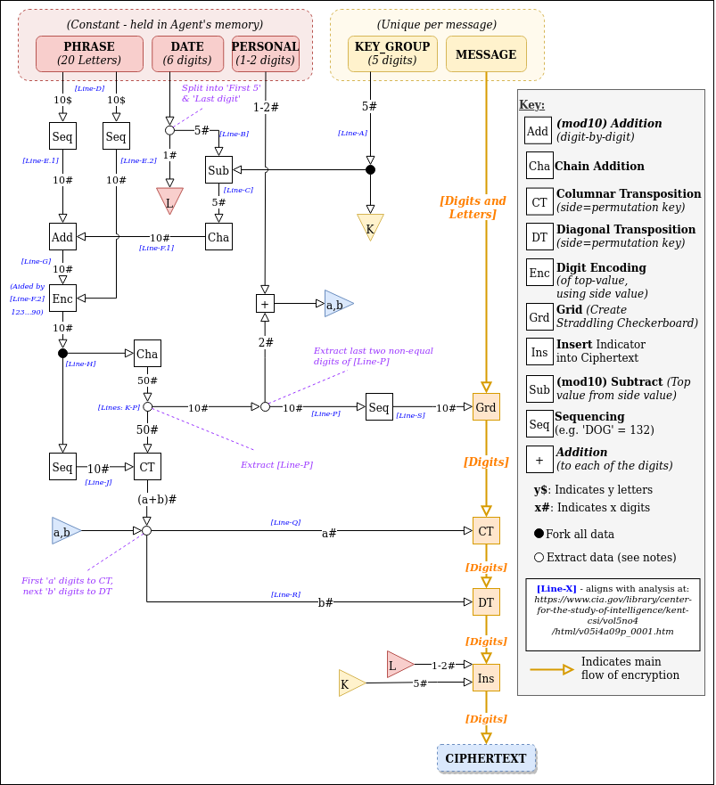 The VIC Cipher was a complex cold-war era pen and paper cipher. This diagram outlines the information flow through it.